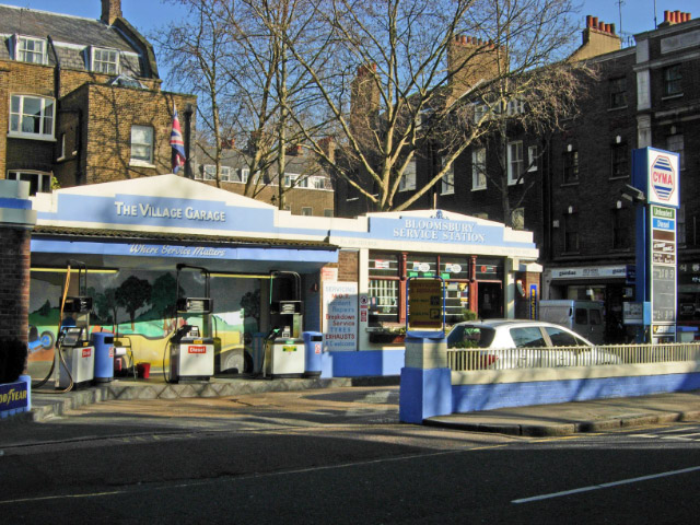 Bloomsbury Service Station A remarkable survival from the golden age of motoring. This traditional garage and petrol station dates back to 1926 and stands on the corner of Store Street and Ridgmount Street.